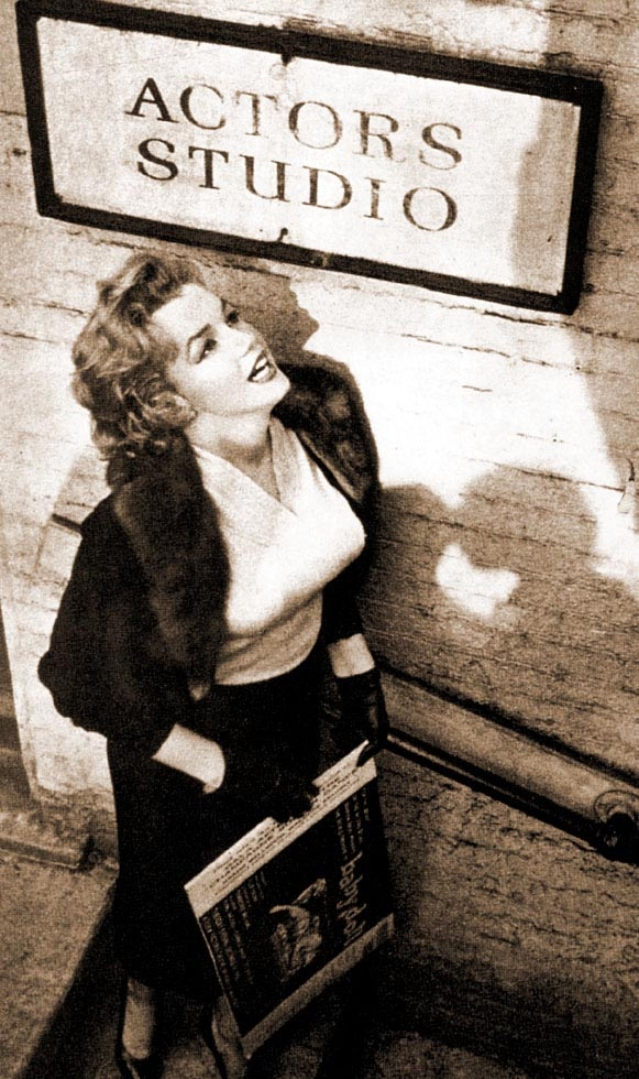 Photo of Marilyn Monroe posing below an Actors Studio sign from the May 1961 issue of TV-Radio Mirror. Note this is a larger, better quality uncropped copy of the photo seen on Radio-TV Mirror page 22. A renewal search was done at using the title Radio-TV Mirror. There were no listings for the publication; there's no evidence of continued copyright on the magazine.